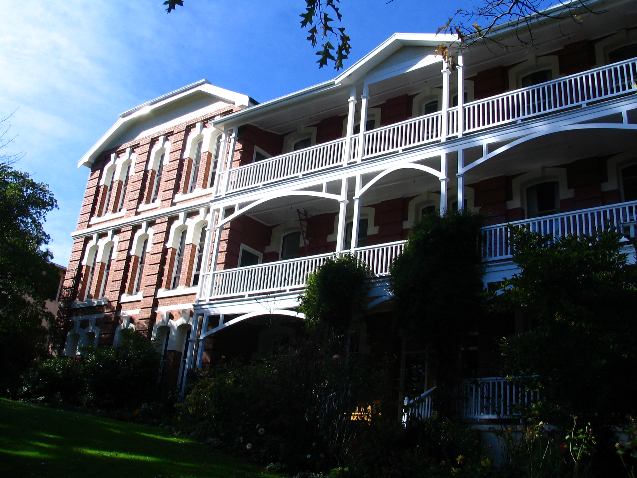 St Margarets College in Dunedin, New Zealand